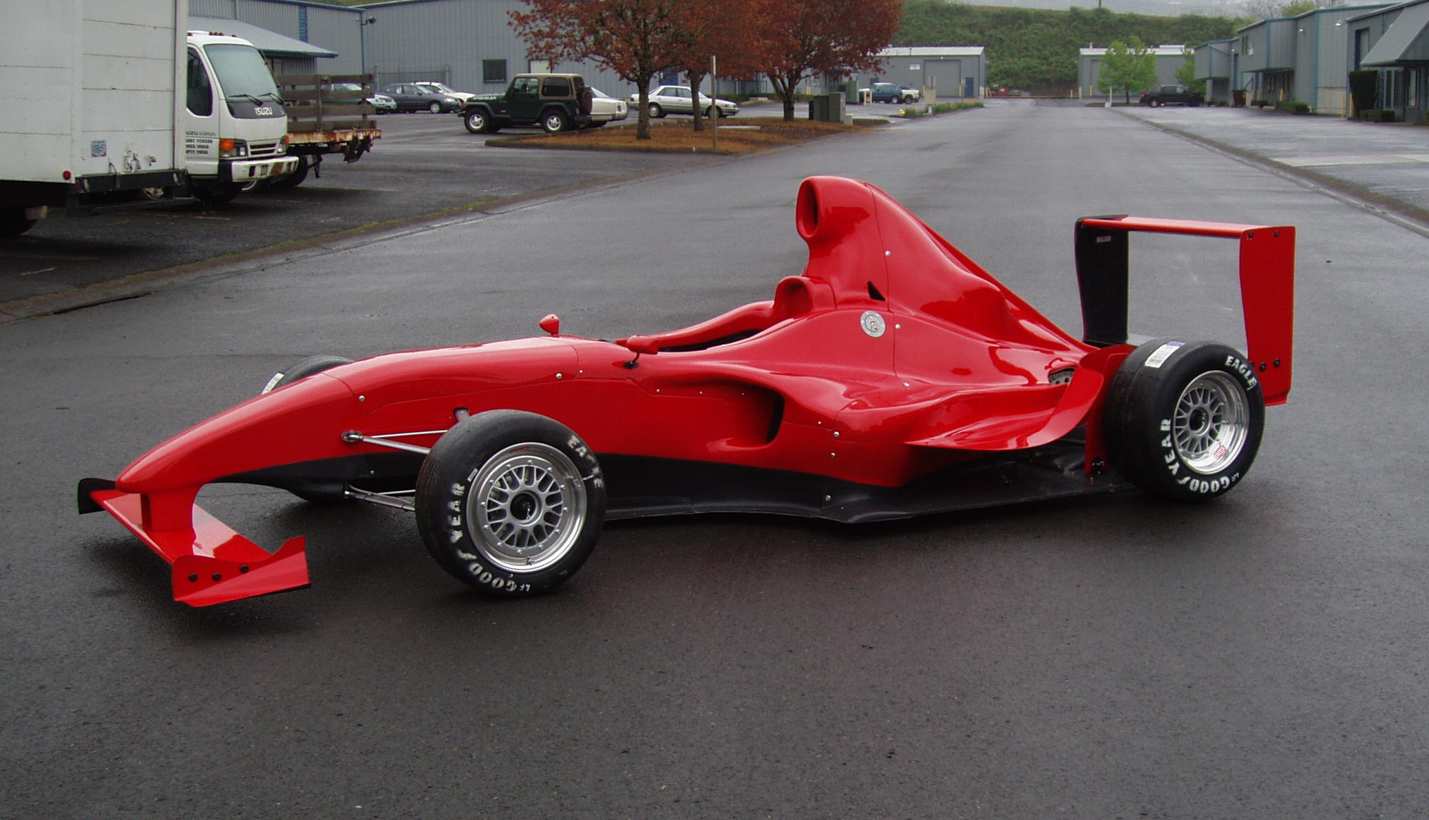 Stohr Formula 1000 car built for SCCA FB roadracing.